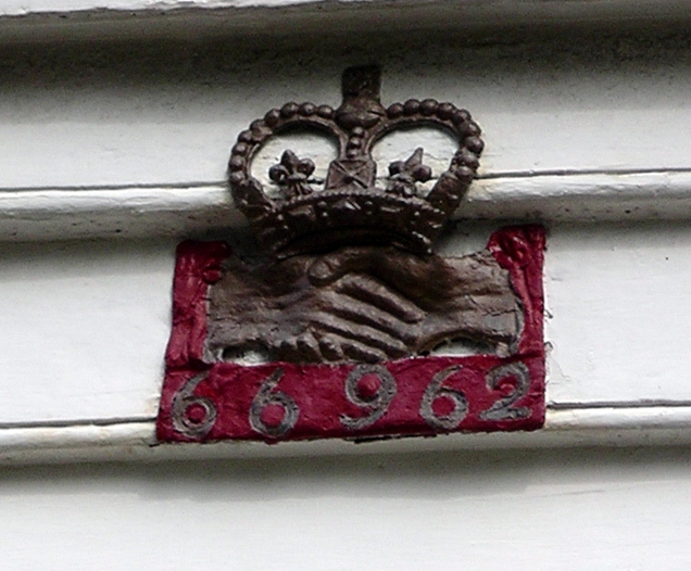 Fire insurance mark of the former Hand in Hand Fire & Life Insurance Society (London, 1696-1905) on a house in Dulwich, South London, England, UK